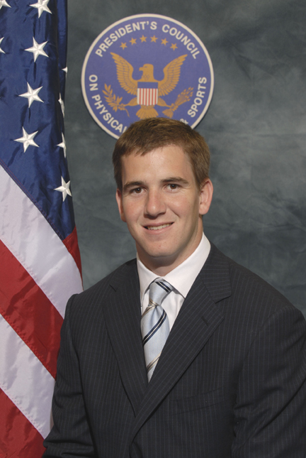 Eli Manning, in a picture taken in 2007 for The President's Council on Physical Fitness and Sports.